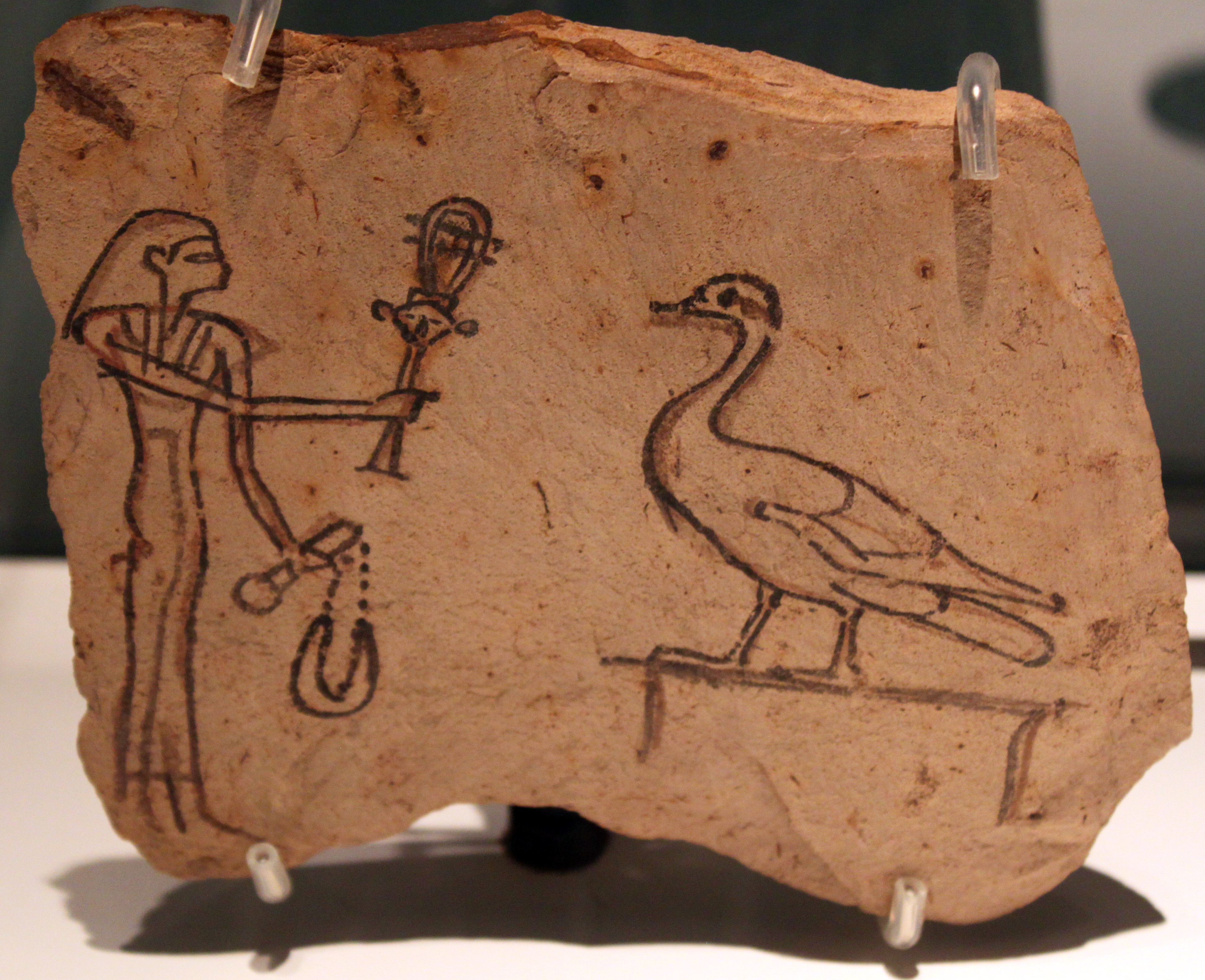 Figured ostracon depicting woman with sistrum and menit; Deir el-Medina (Egypt); ca. 1.400 BC